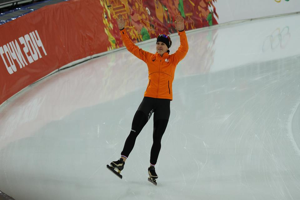 Women's 3000m, 2014 Winter Olympics, Ireen Wust won